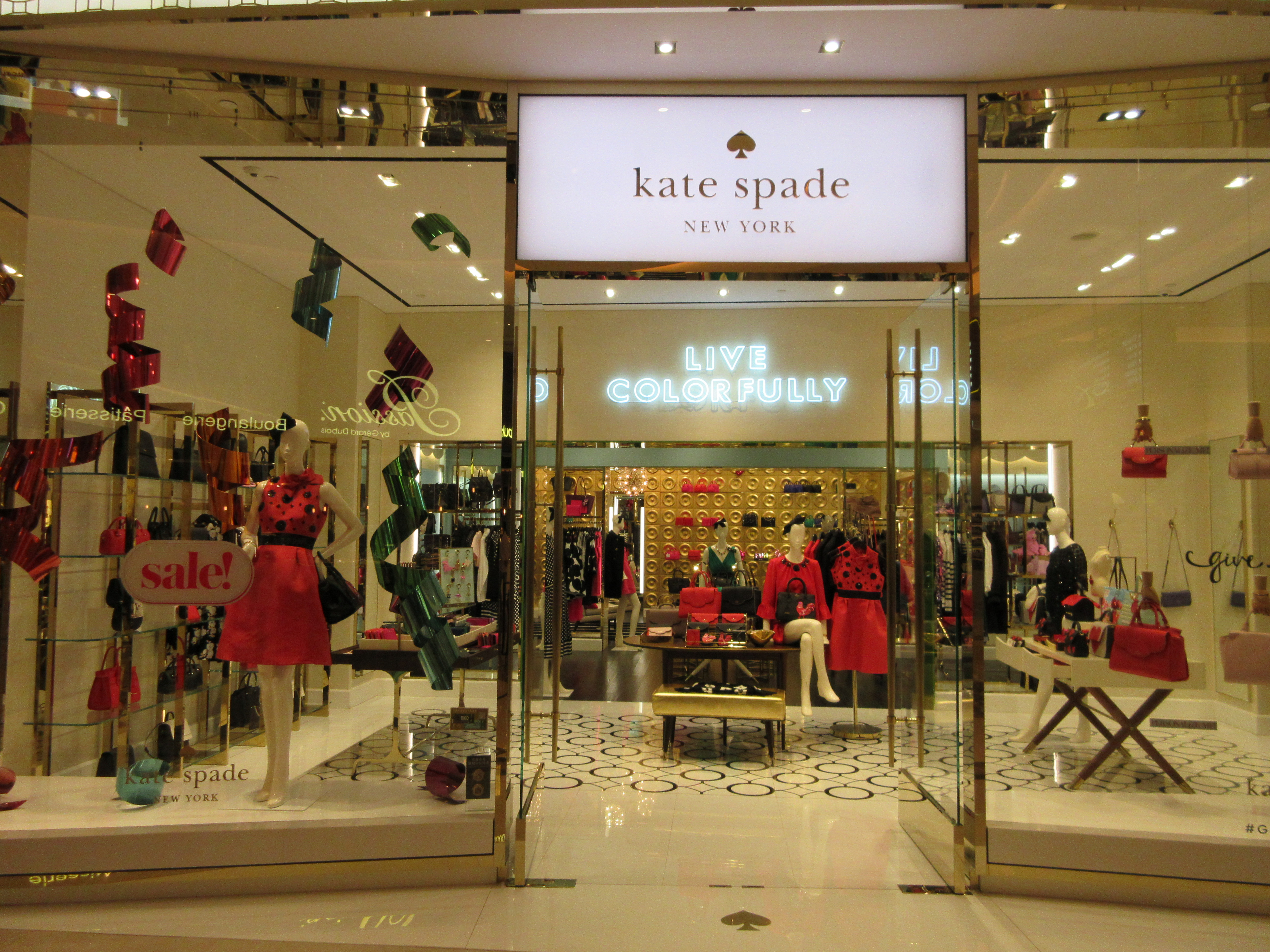 MC JW Marriott 澳門銀河 Galaxy Macau mall The Promenade Central in Jan 2017